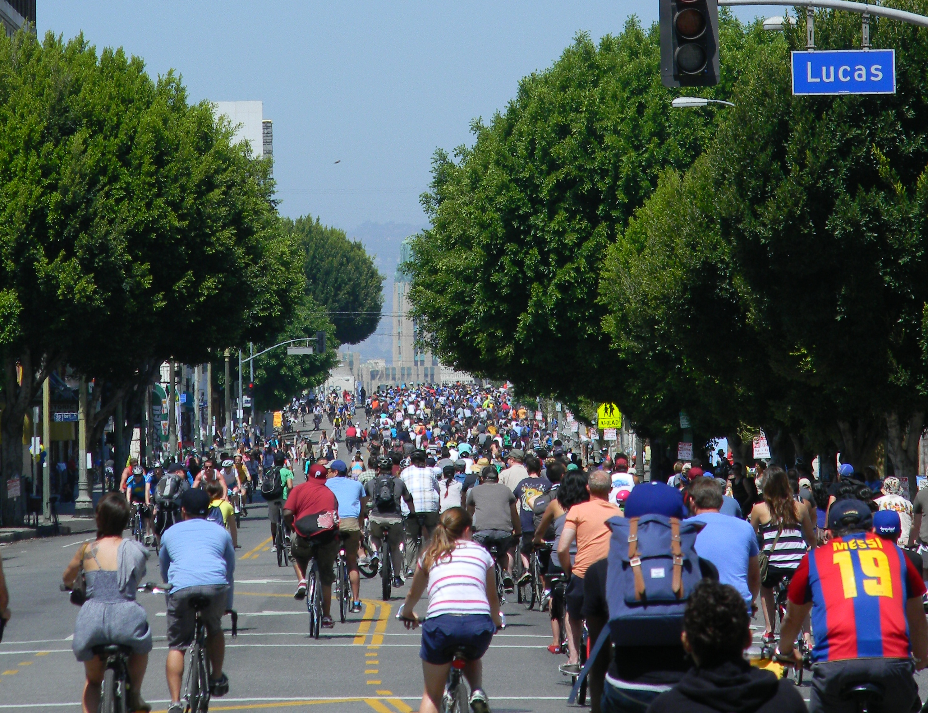 Cyclists during the first "Iconic Wilshire" CicLAvia, June 23, 2013.